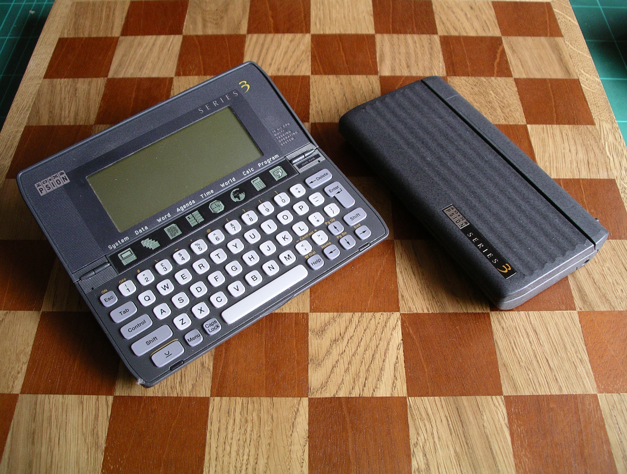 Photo taken by me of two psion 3's - one open and one closed. Photo taken on 17 Oct 2006 on a 5cm square background.